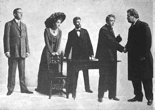 Actor Walker Whiteside in The Melting PotCropped caption: "THE MELTING POT"Walker Whiteside, in the play by Israel Zangwill, which depicts America as the crucible wherein the fusion of the Jew and Gentile is taking place.